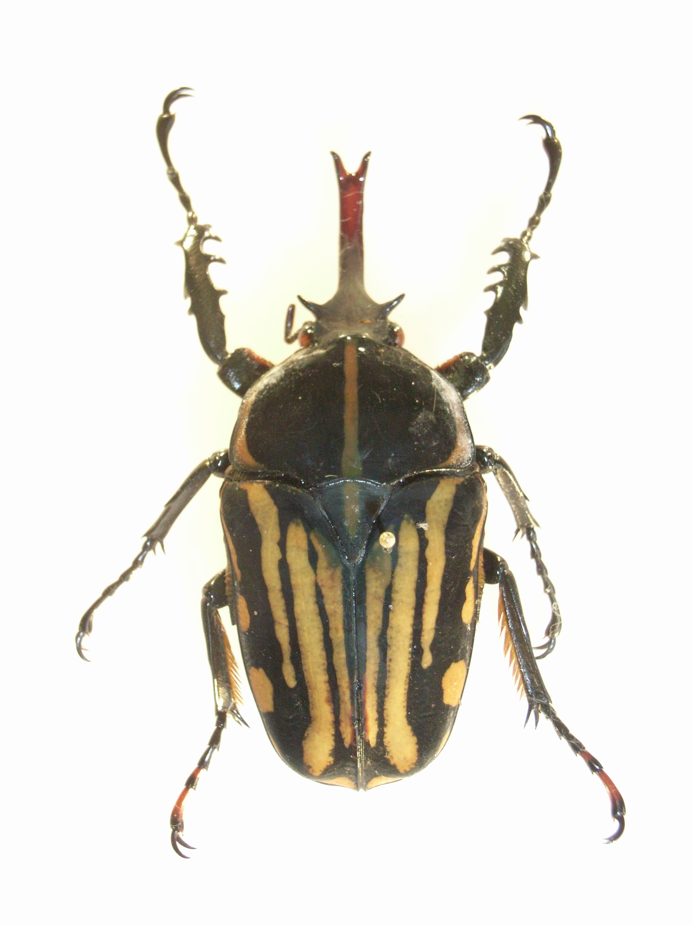 Chelorrhina kraatzi Cetoniinae Ex coll. Felix Stumpe